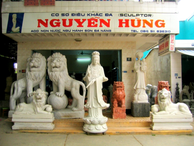 One of the many sculptors' shops at the base of the Marble Mountains, Da Nang.